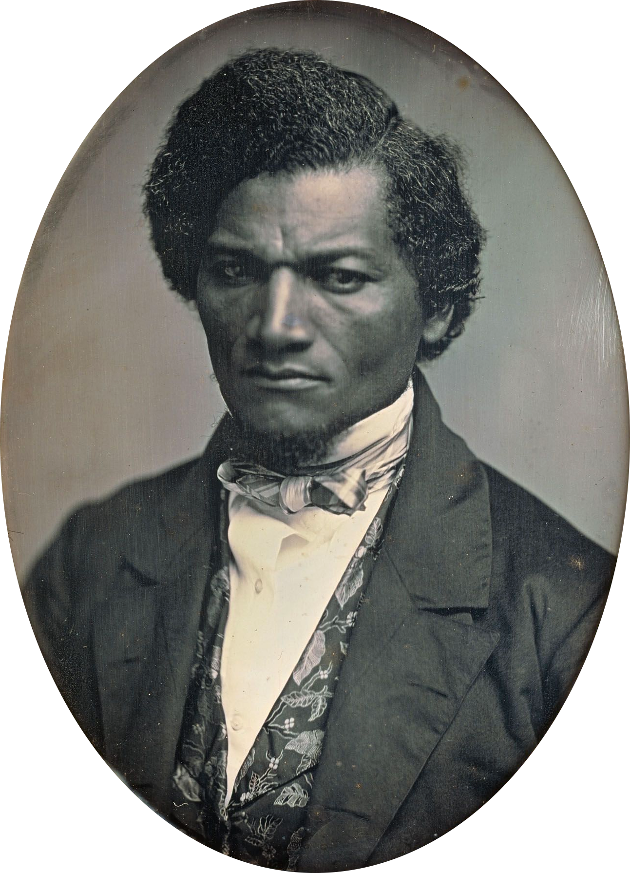 Daguerreotype of Frederick Douglass